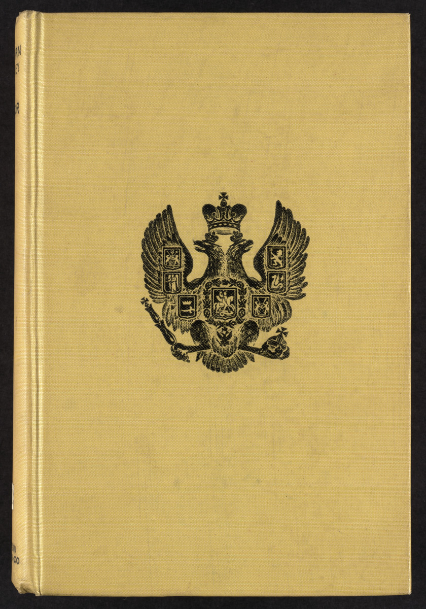 File name: 06_04_000136Title: PROCTOR(1900) A Russian journeyDate issued: 1900Genre: Book coversNotes: Proctor, Edna Dean, 1829-1923 (Author)Collection: Sarah Wyman Whitman BindingsLocation: Boston Public Library, Special CollectionsRights: No known copyright restrictions.